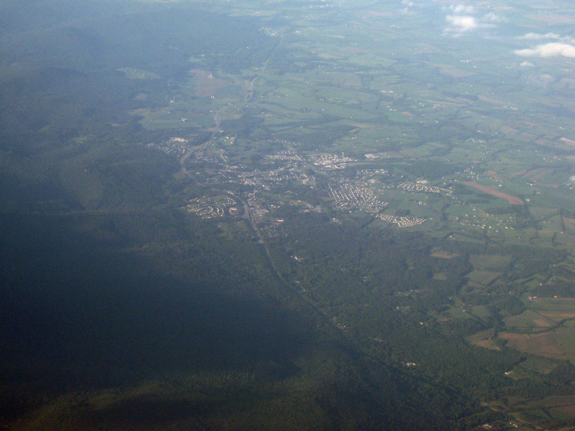 Oblique air photo of Thurmont, Maryland, facing northeast, with Catoctin Mountain to the left and U.S. Route 15 going through town. August 2010. Levels enhanced in Adobe Photoshop.